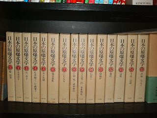 nihonnogenbakubungaku-2